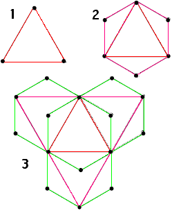 PseudoFractal SF Network